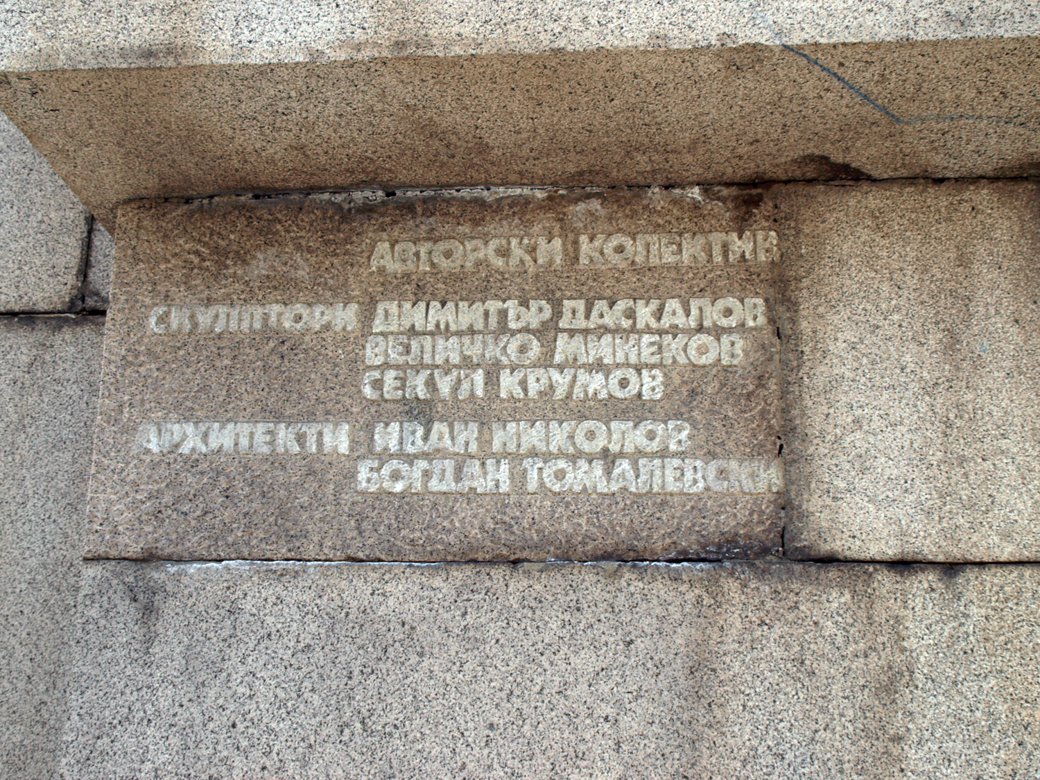 Inscription: Apriltsi monument autors team, Panagyrishte, Bulgaria